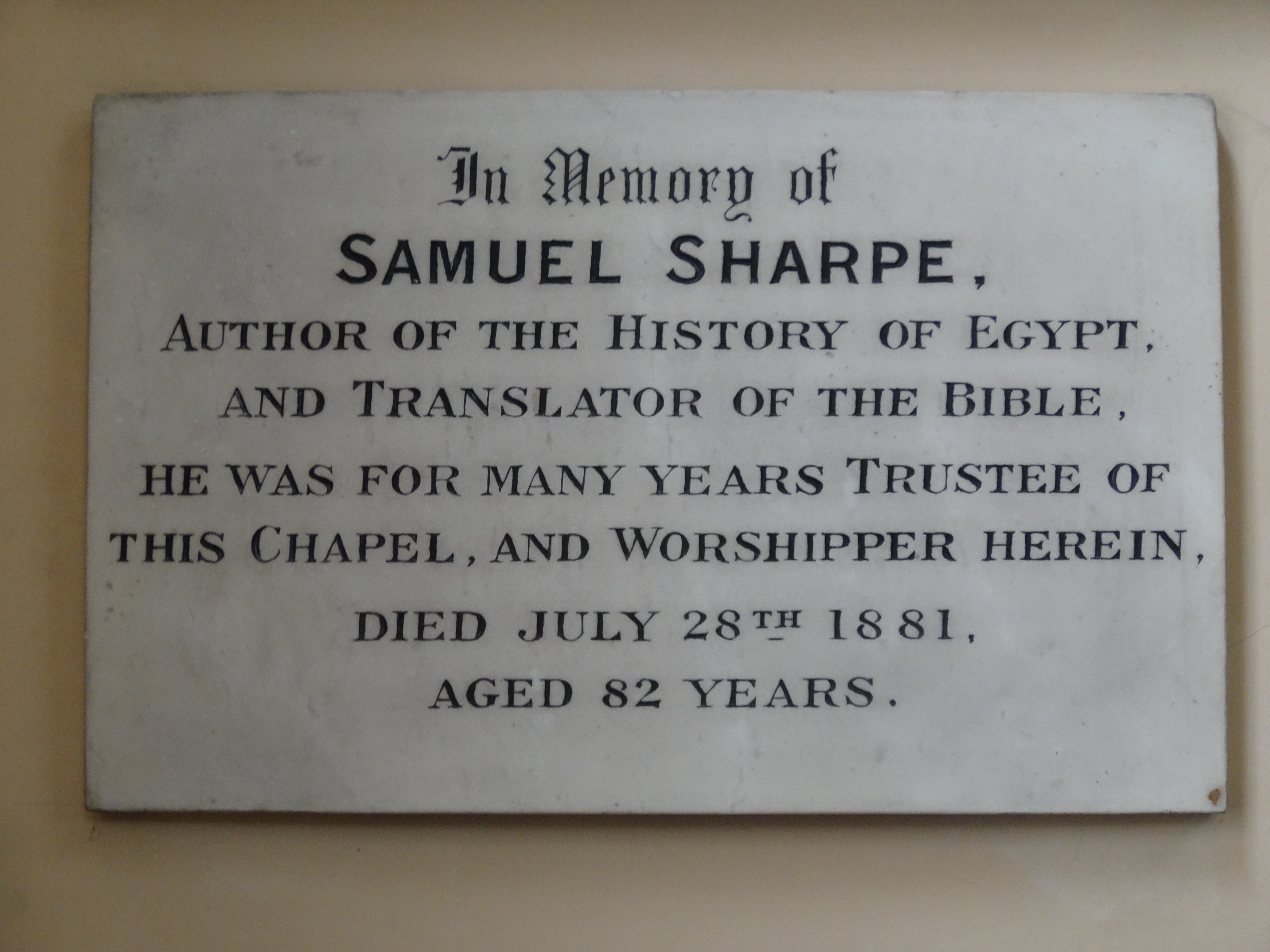 Newington Green Unitarian Church (interior)